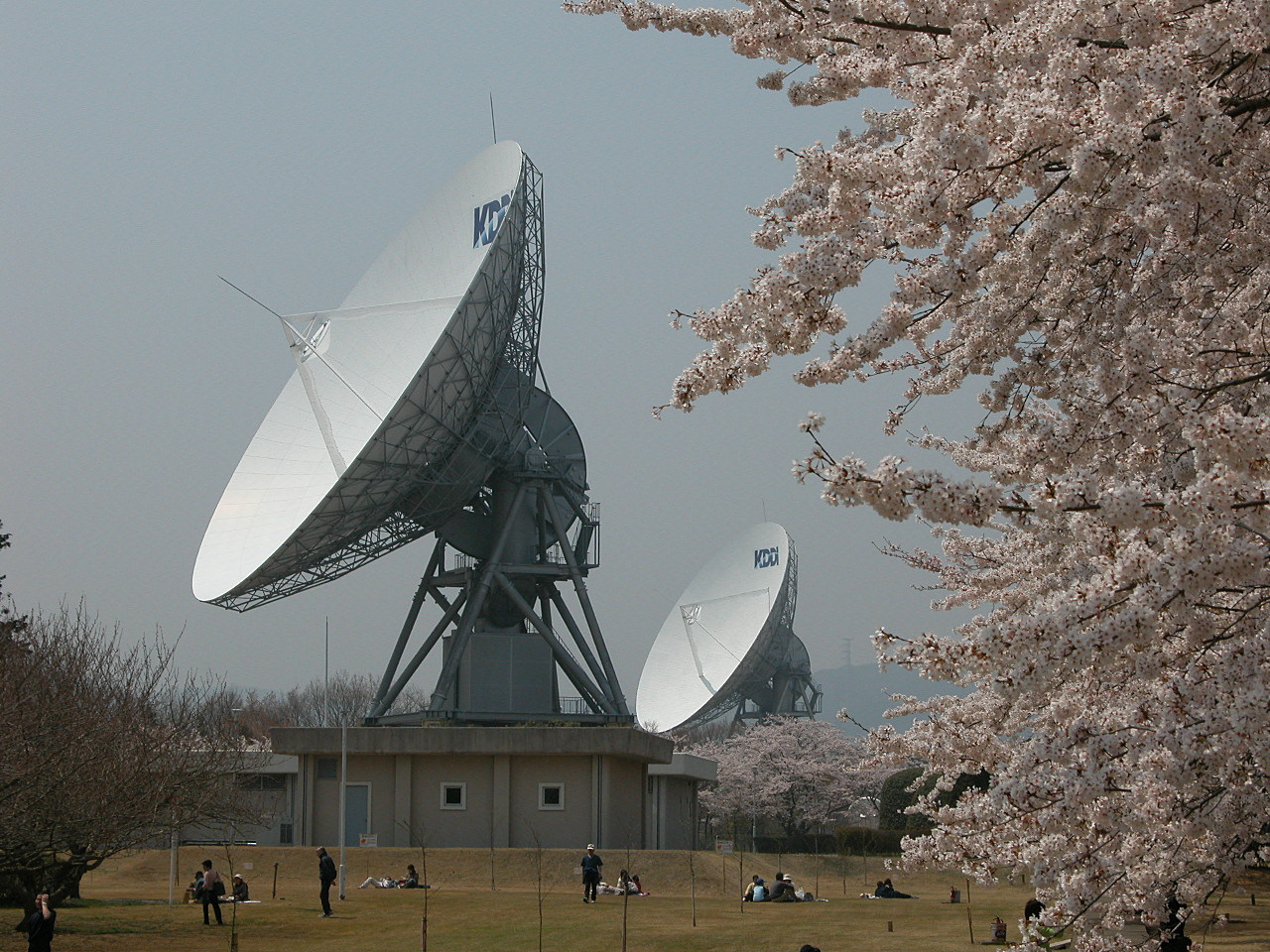 32m parabolic antennas and cherry blossoms, at Ibaraki Satellite Earth Station, KDDI Corporation